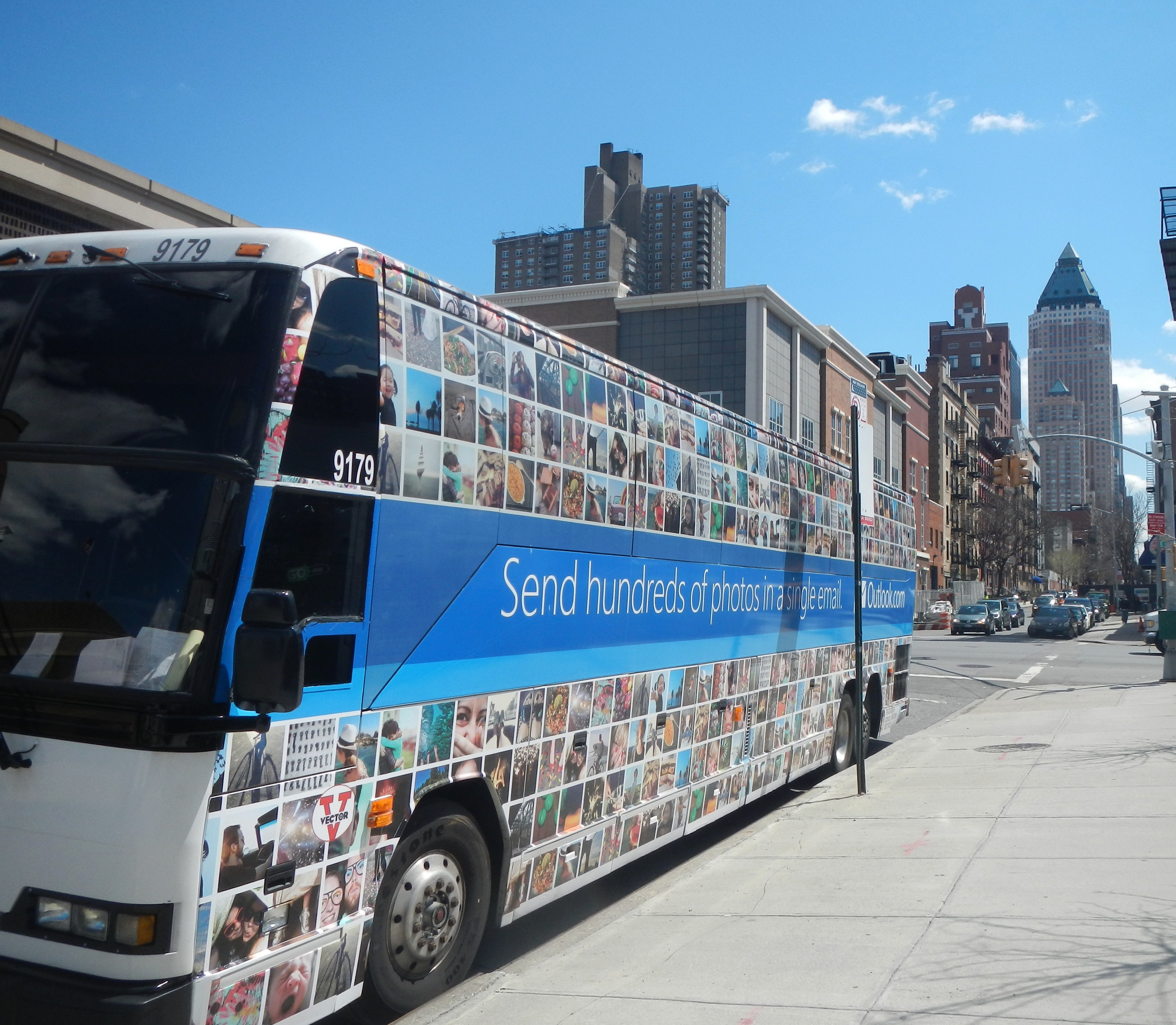 Looking east at bus parked on 49th Street on a sunny midday.